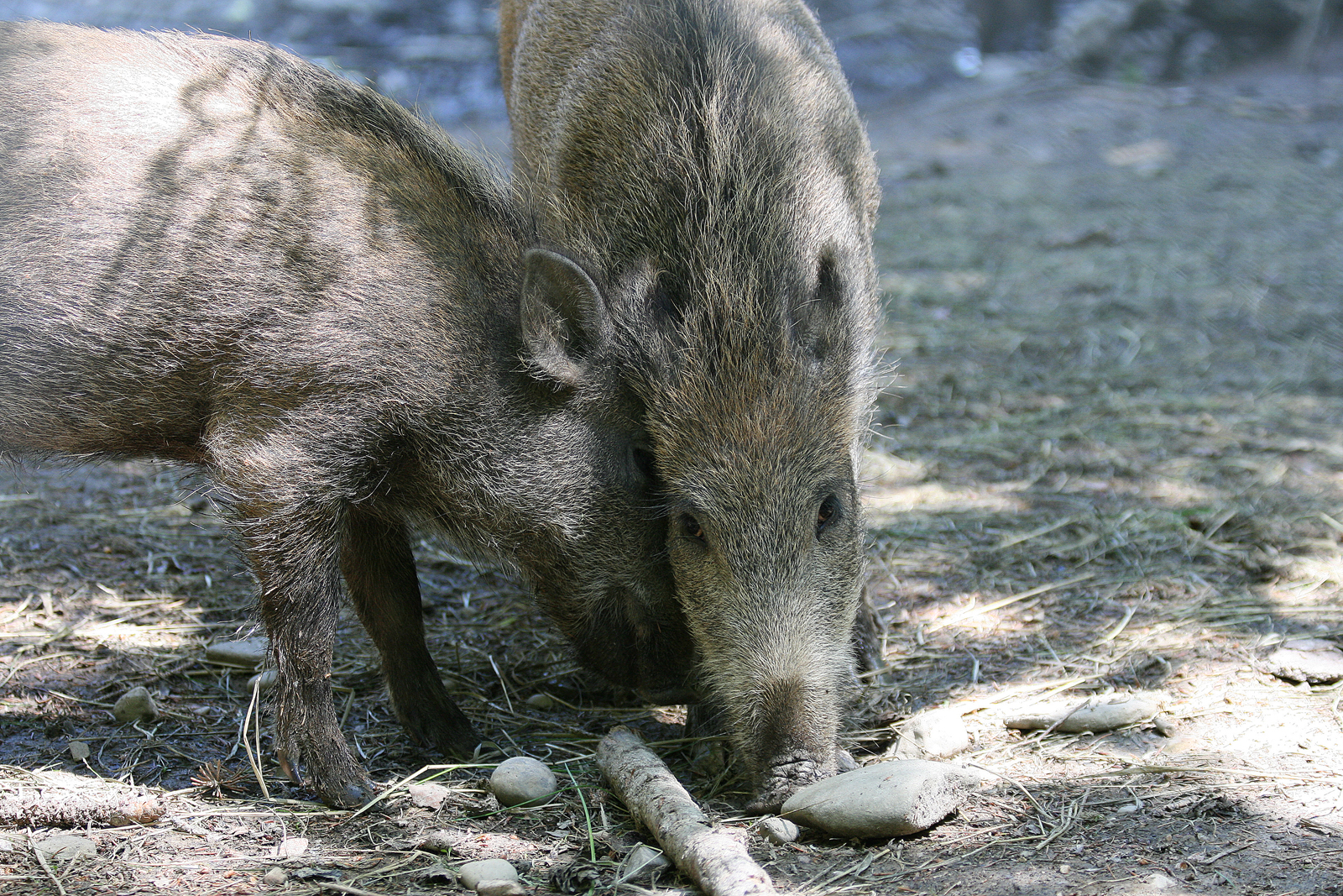 Description: The Wild Boar (Sus scrofa) is the wild ancestor of the domestic pig. As shown in his natural habitat.